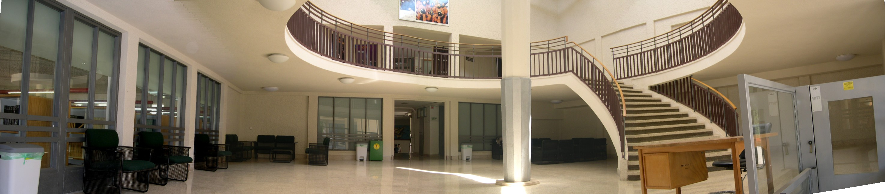 Panaromic view of the entrance to the Aerospace Engineering Faculty, Technion, Israel.